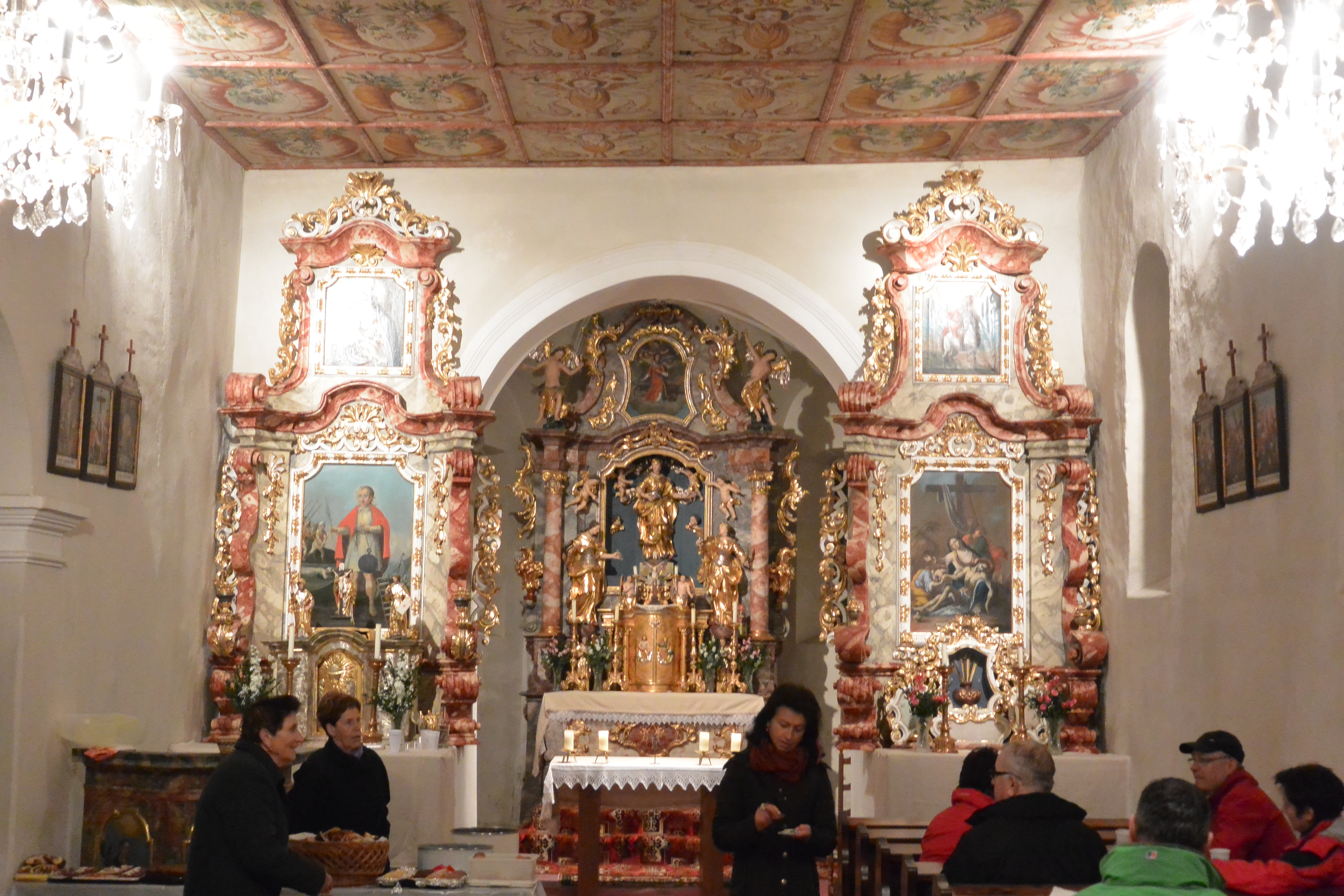 Catholic church St. Lucia at Aich/Dobin the community of Bleiburg - Interior